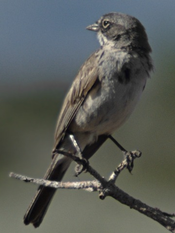 Adult male Sage Sparrow Amphispiza belli nevadensis, near El Rito, New Mexico.